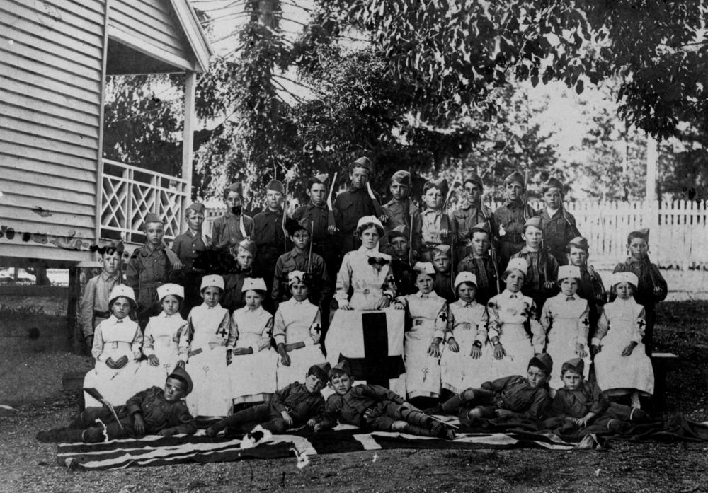 Group of children dressed up for a patriotic concert at Stafford State School, Brisbane, 1915 A patriotic concert at the old Stafford State School in 1915. The children, dressed as nurses and soldiers, raised 52 pounds for The Courier newspaper's Belgian fund. (Description supplied with photograph).